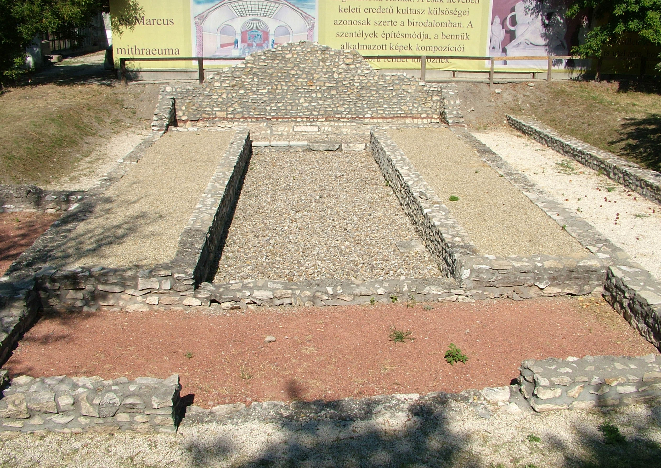 Mithras sanctuary in Aquincum (Symphorus Mithreum)